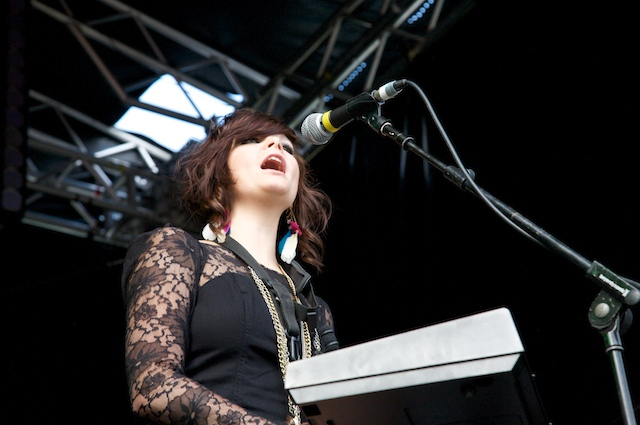 Rebekah Pennington of The Arcadian Kicks playing at the Isle of Wight Festival 2010. Platform 1/Widget Productions Stage